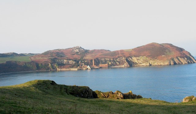 Porth Wen cove and the Torllwyn headland from Trwyn Llech